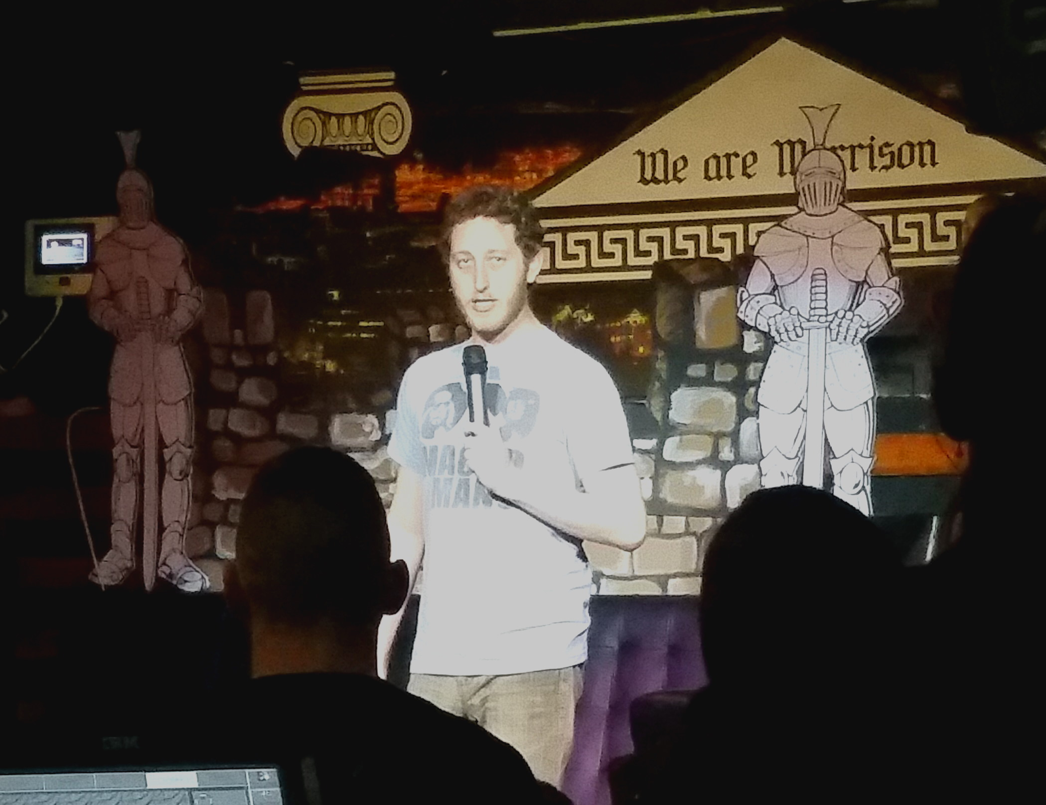 Yonatan barak in standup show in haifa, israel